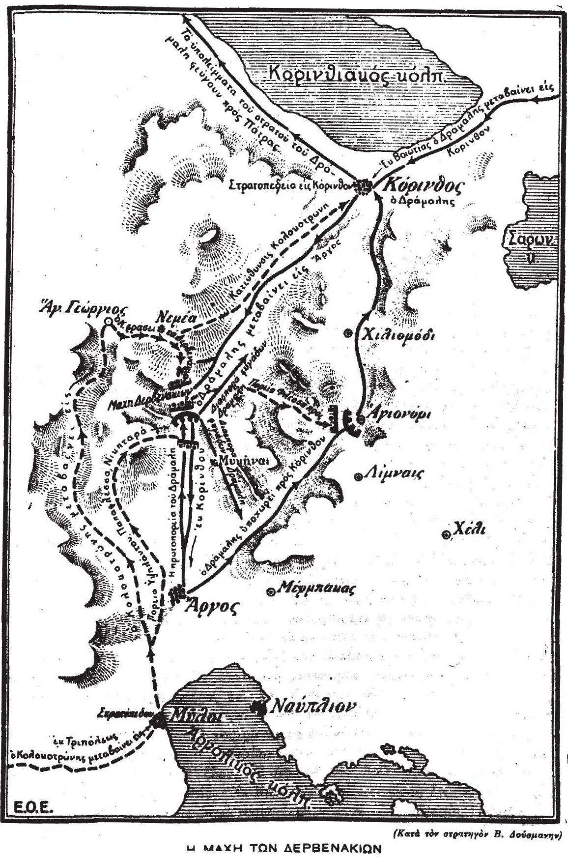 map of the battle of the Battle of Dervenakia